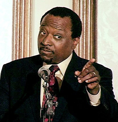 United States political activist and former diplomat, Dr. Alan Keyes (en)